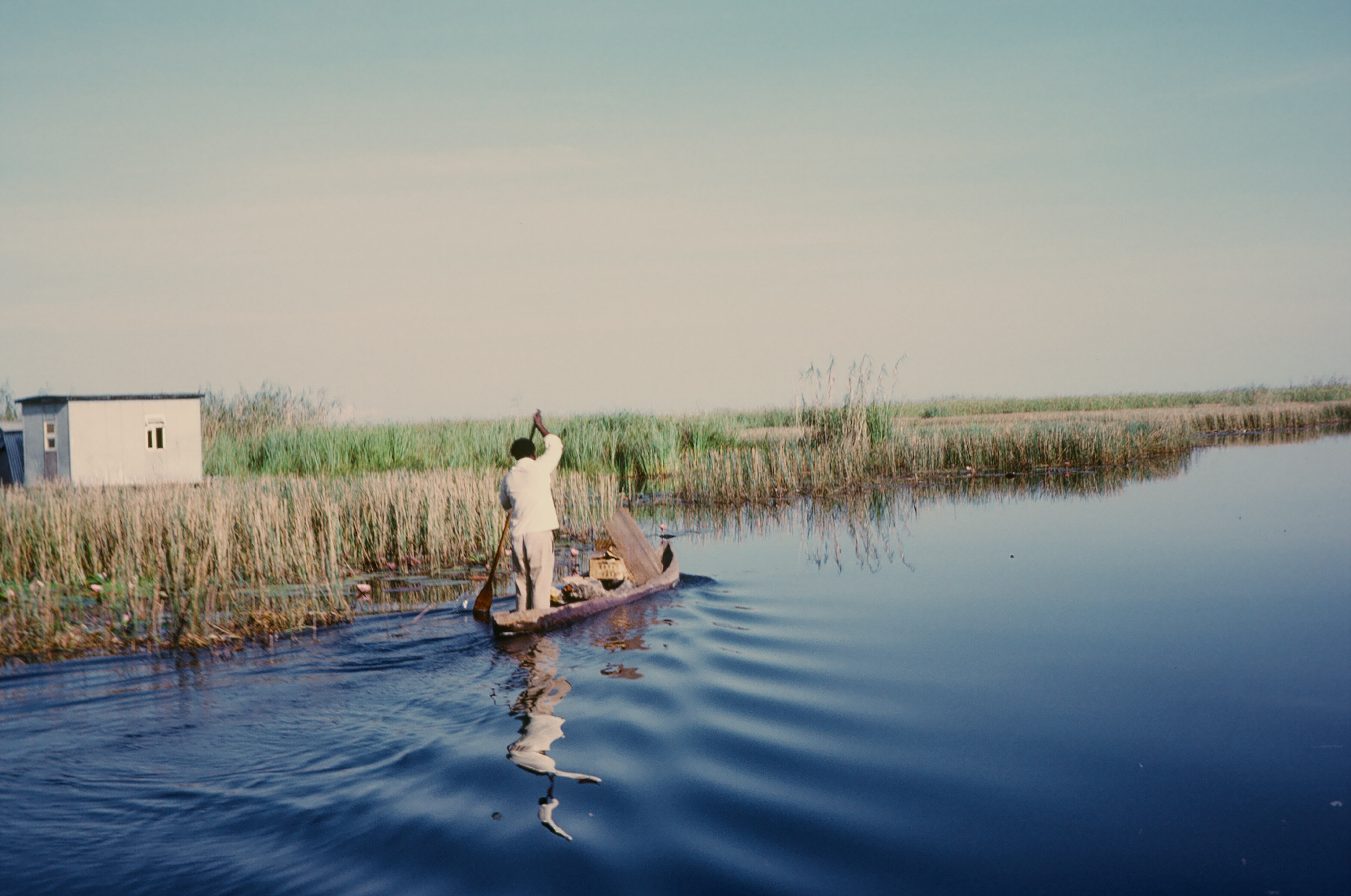 A resident fisherman enters Lukanga Swamp about 60 km west of Kabwe, Zambia. Fisher families live in papyrus shelters on floating mats of vegetation within the swamp. The national bird, the fish eagle, may be seen hunting for its prey in the swamp.